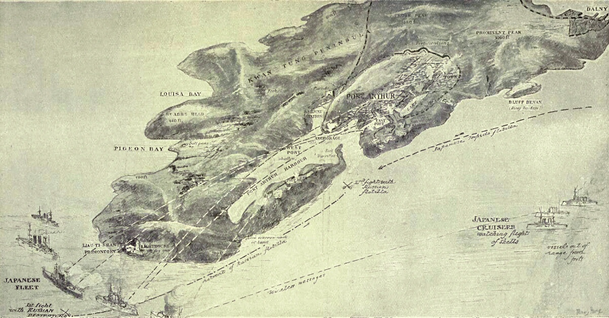 Method of shelling Port Arthur by the Japanese battleships (not in scale) in February-March 1904, during the Russo-Japanese war.